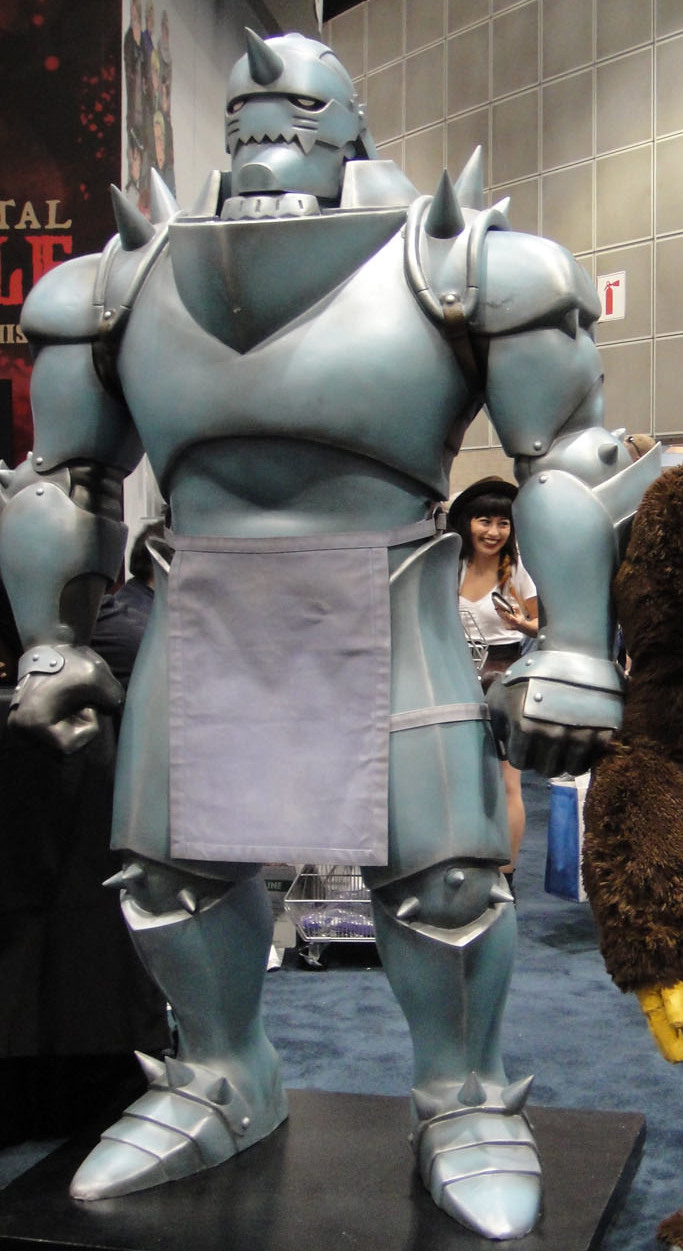 Cosplayer dressed as Donkey Kong standing next to a statue of Alphonse Elric (of 'Fullmetal Alchemist) at Anime Expo 2011.